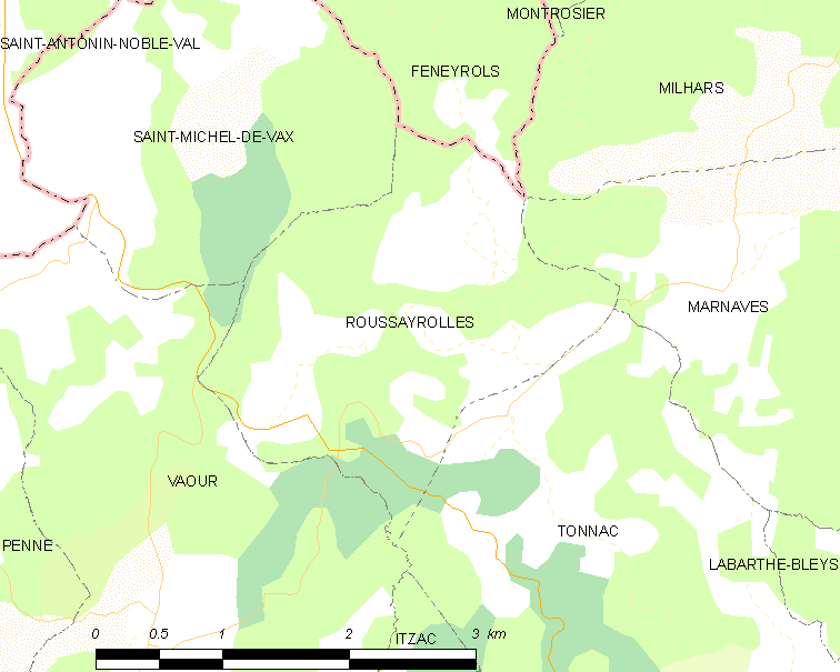 Map of French municipality Roussayrolles